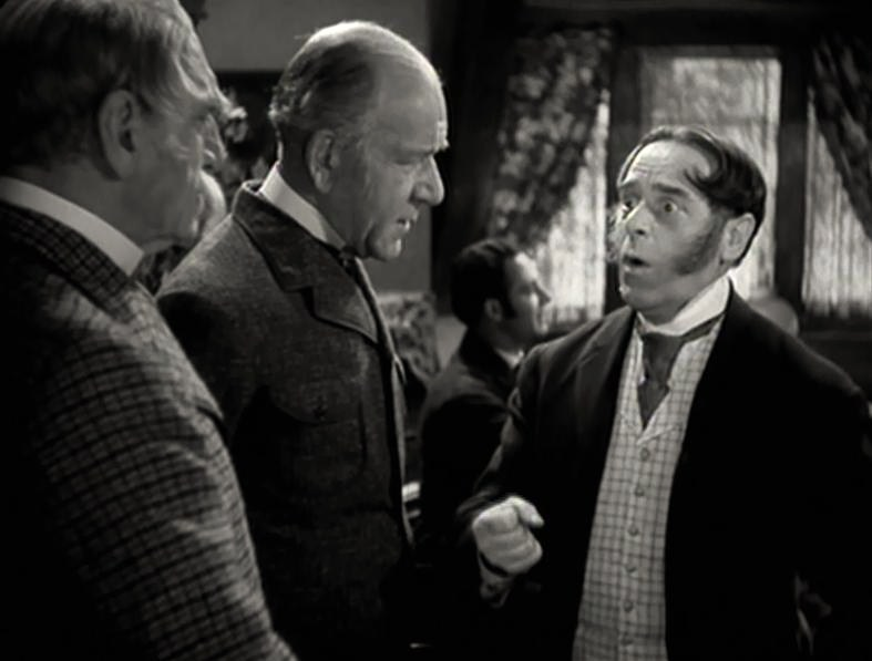 L. to R. : C. Aubrey Smith, Henry Stephenson & Walter Kingsford in Little Lord Fauntleroy - cropped screenshot